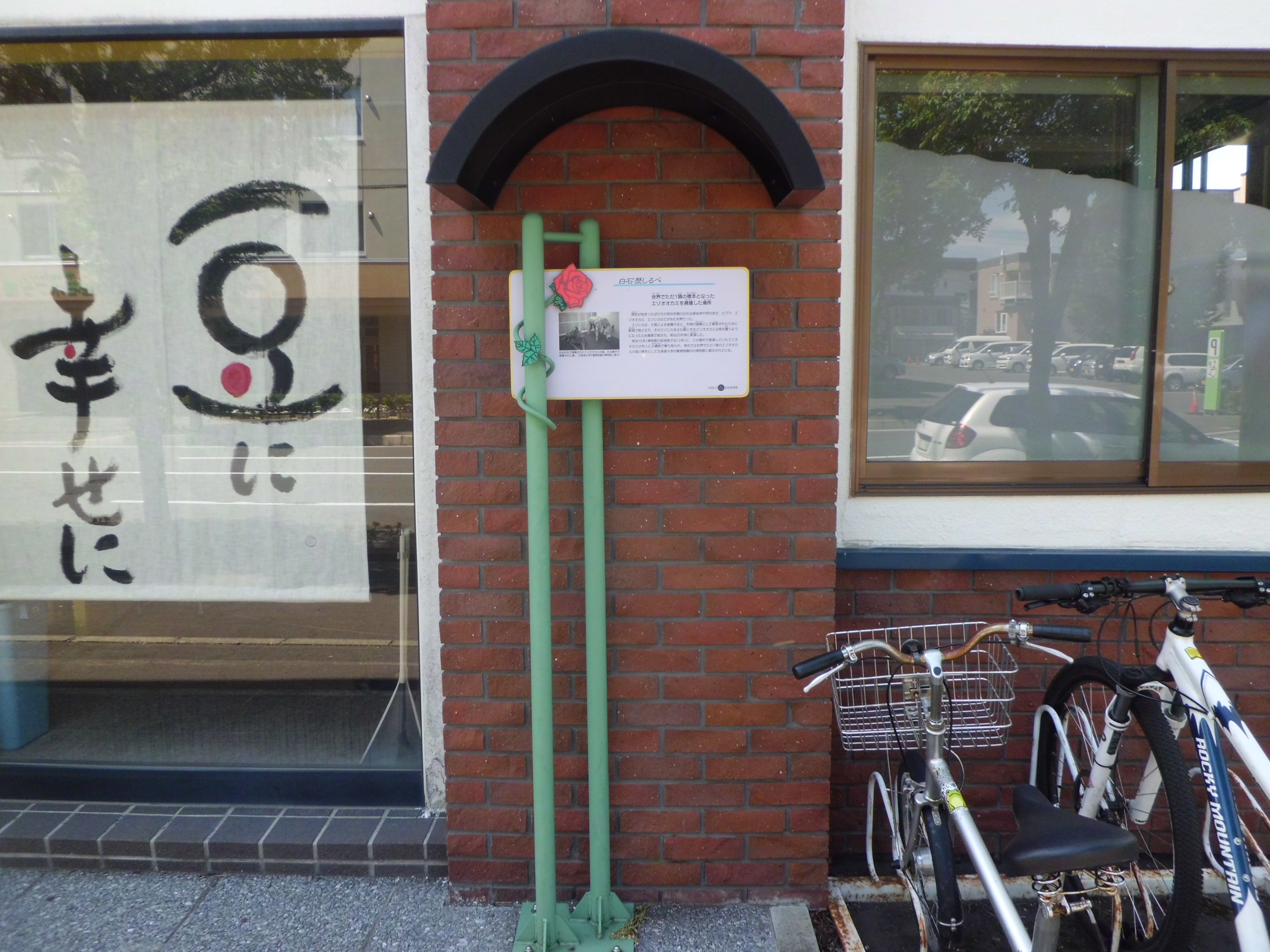 The place where the Last Ezo Wolf Captured